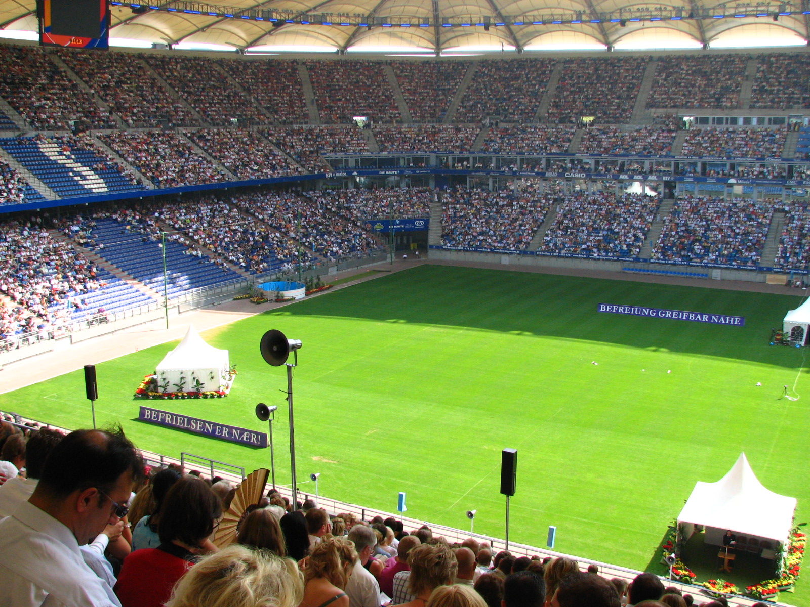 International Convention of Jehovah's Witnesses in Hamburg, Germany in 2006; Visitors came from Belgium, Denmark, Germany, The Netherlands, Norway, Sweden, and USA